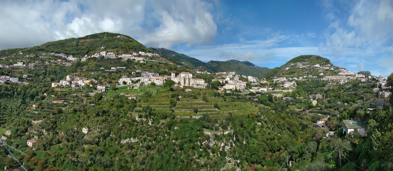 Scala, Campania, Italy. View from Ravello.